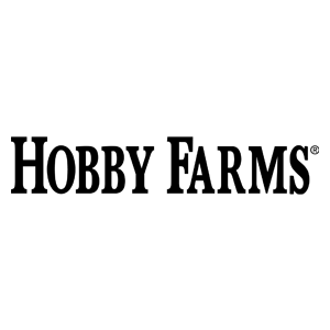 Hobby farms official logo